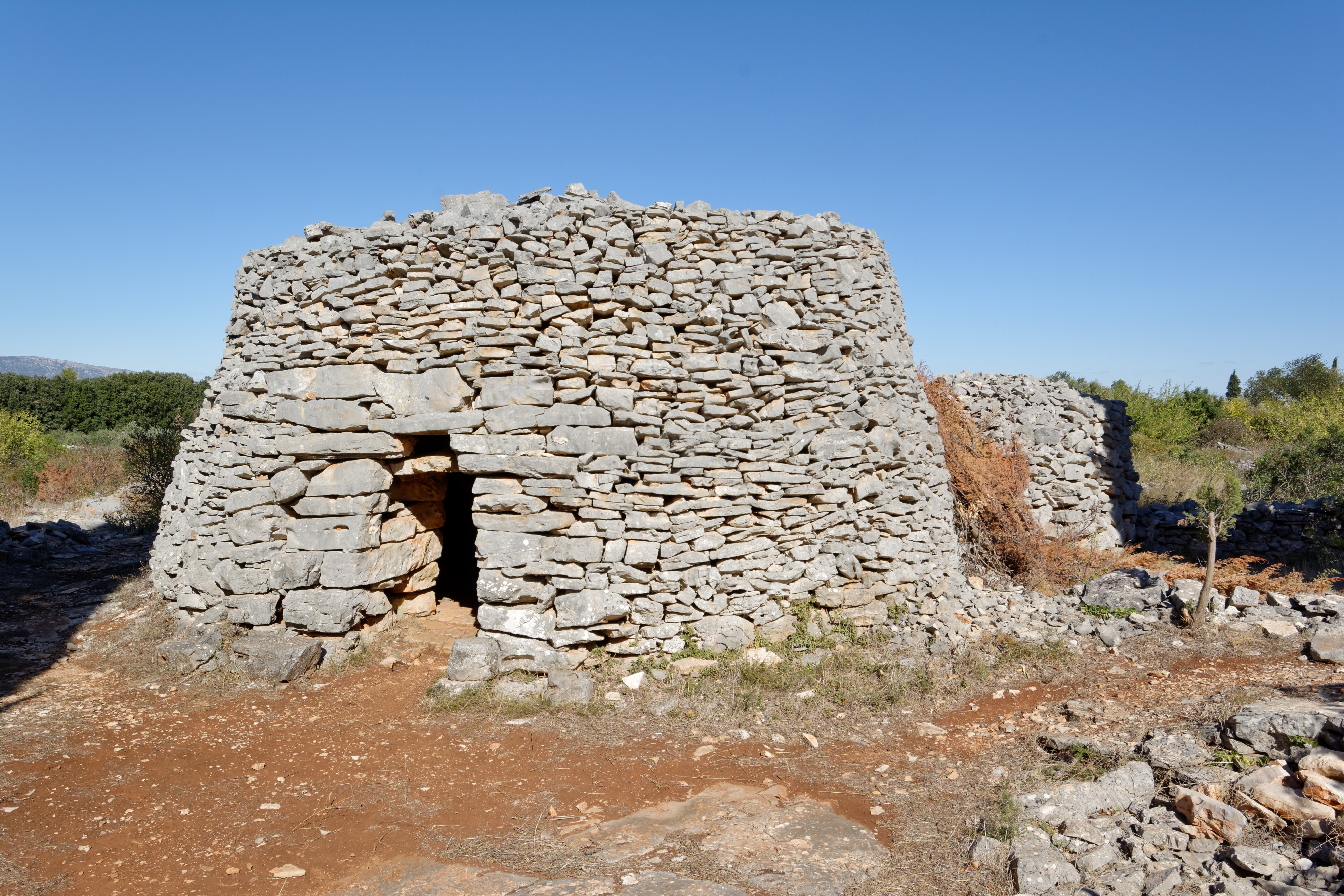 Great Trim (field shelter with dry stone walls and corbelled roof) on the Stari Grad Plain, Island of Hvar, Croatia.